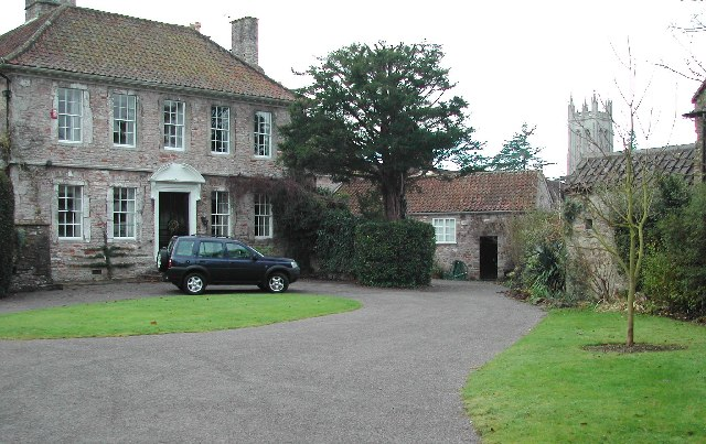 Old Rectory, Wrington, Somerset, England